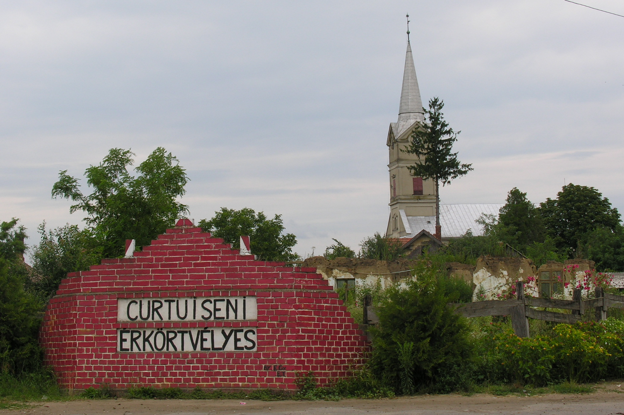 Curtuişeni village in Bihor County Romania